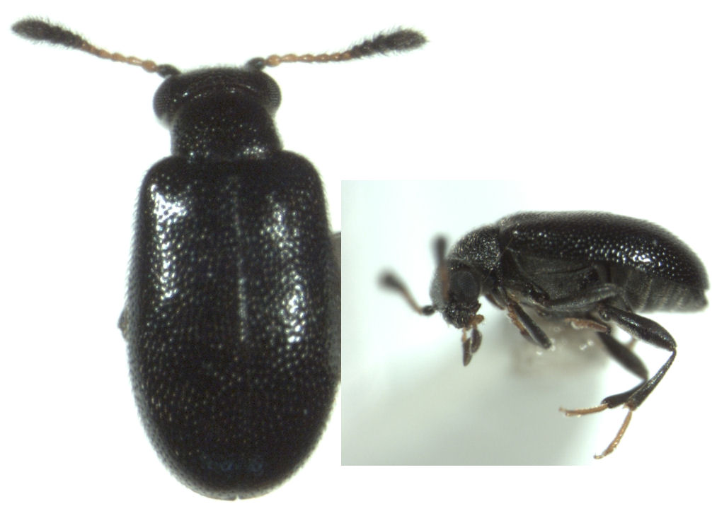 adult female(?) Xylophilus antennalis(?)